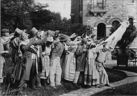 Still from the 1908 Georges Méliès film L'Ascension de la rosière.